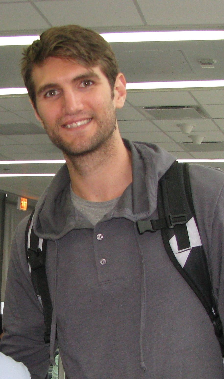 Jeff Withey, University of Kansas basketball player